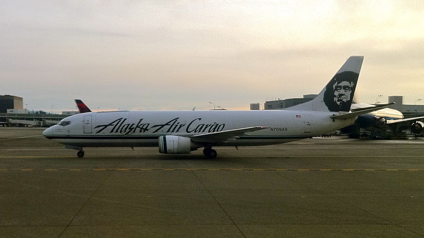 A Boeing 737-490(SF) of Alaska Airlines, used for Alaska Air Cargo, on the ground at Seattle-Tacoma International Airport